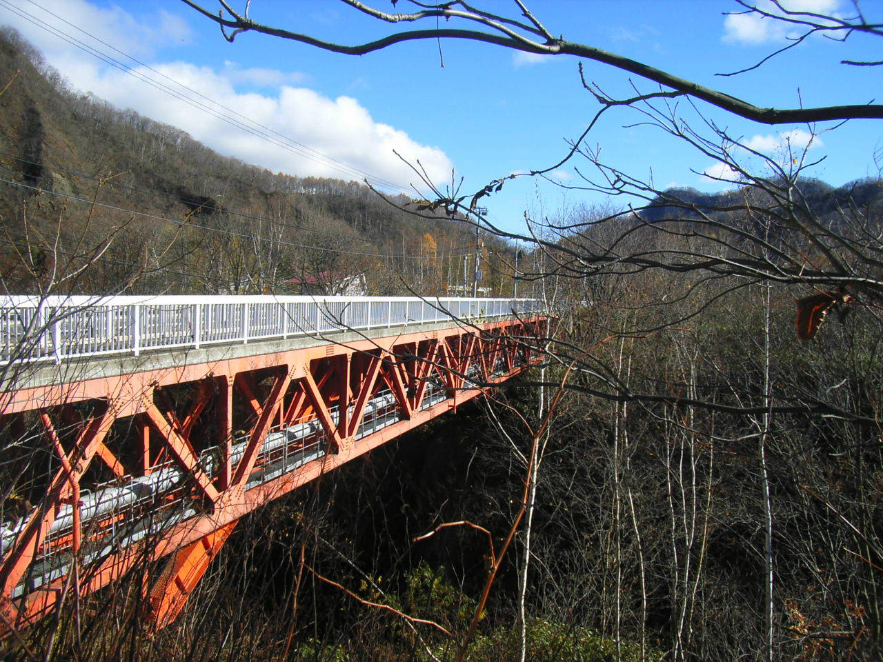 Nishiki Bridge of the Toyohira River, Sapporo, Japan